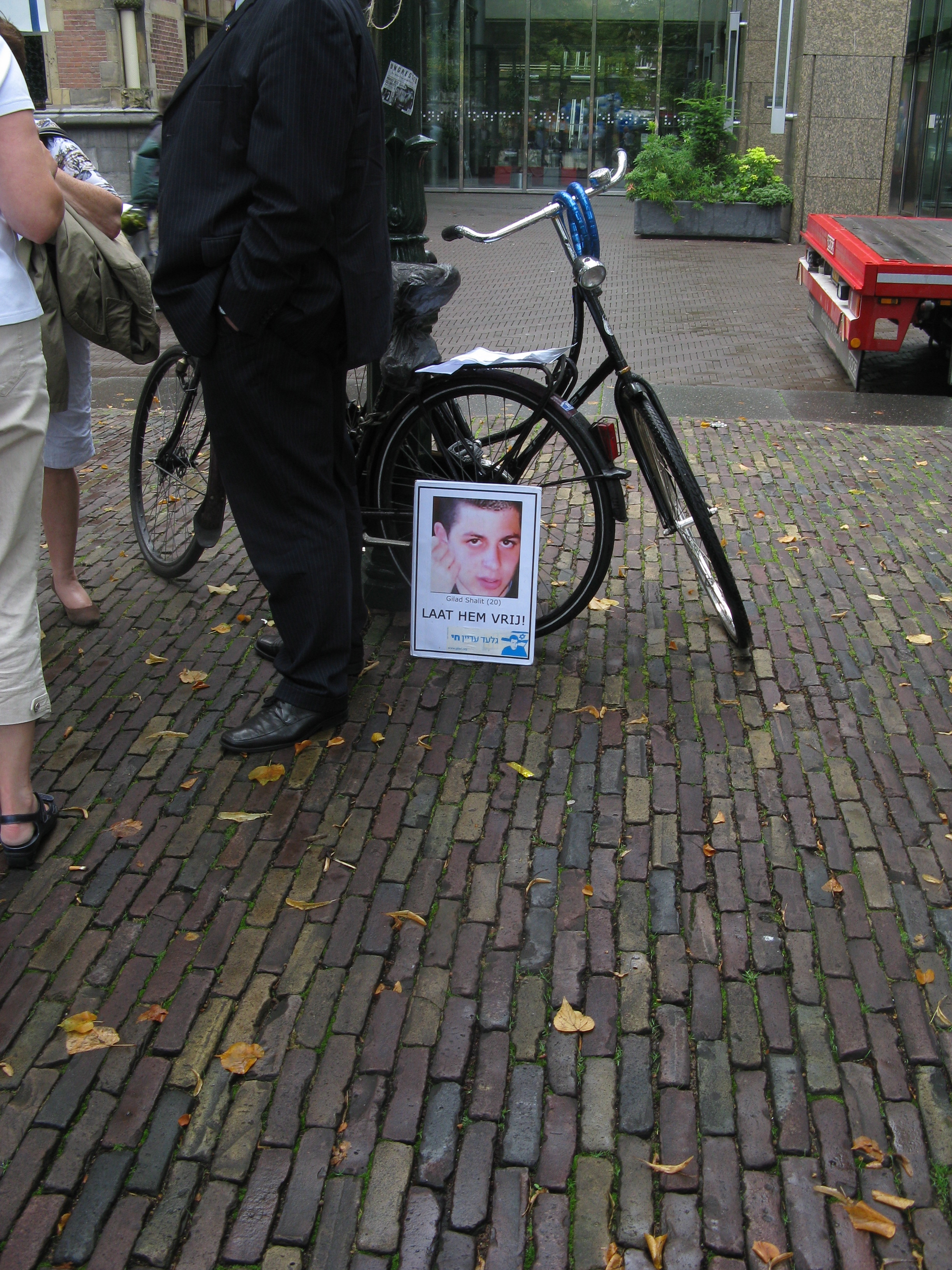 Gilad Shalit.